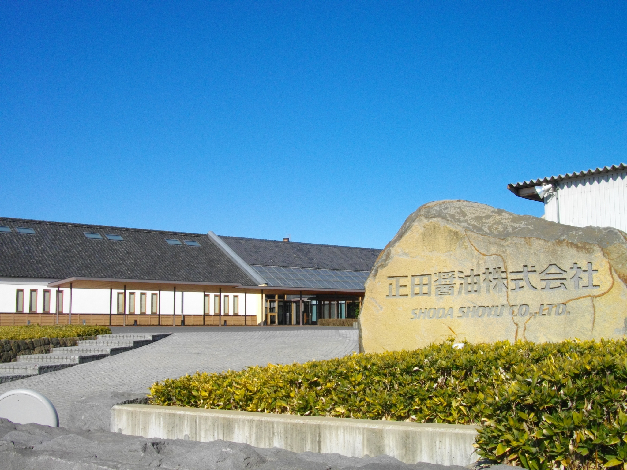 Shoda Shoyu Head Office